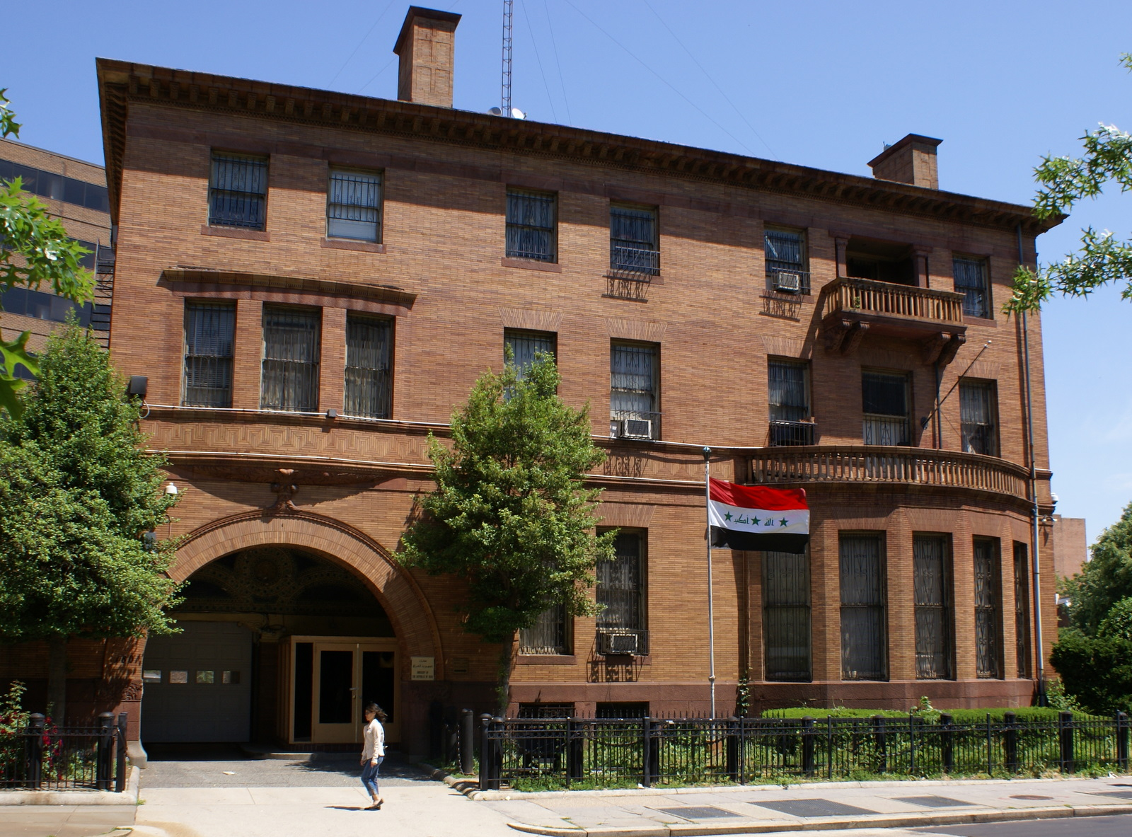 The Embassy of Iraq's consular office (also known as the Boardman House) in Washington, D.C.